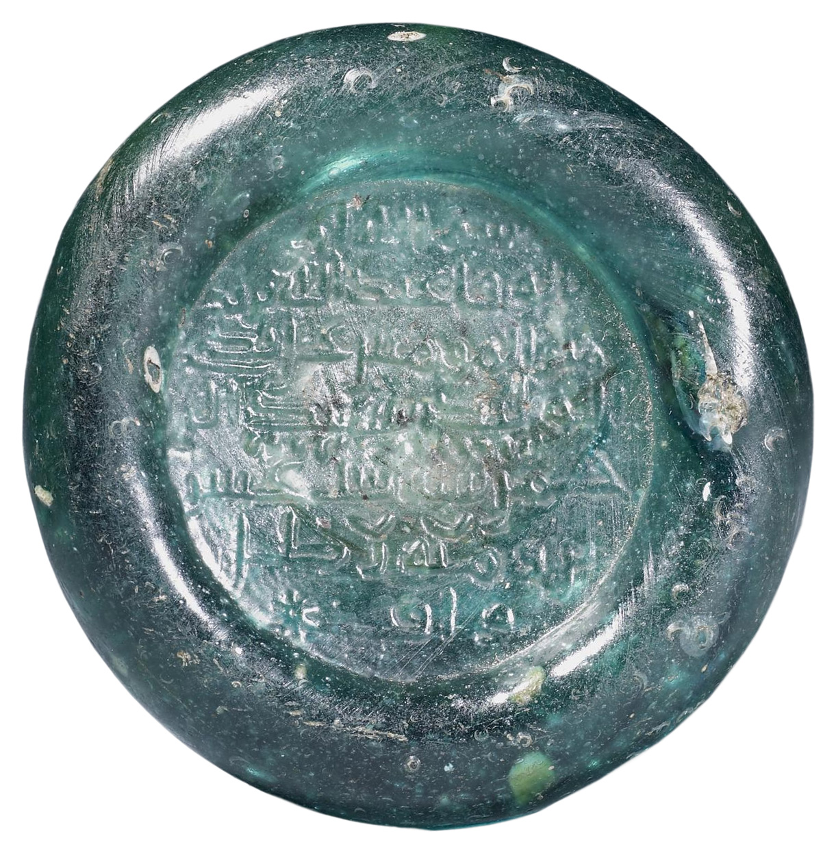 This unusual green glass weight is among the earliest dated Islamic objects (other than coins) in any American museum. In addition to the name al-Walid, who was the financial director of the Damascus treasury, the weight's inscription, stamped on top in an angular script known as kufic, evokes Yazid III, a caliph, or ruler, of the Umayyad Dynasty (661-750).